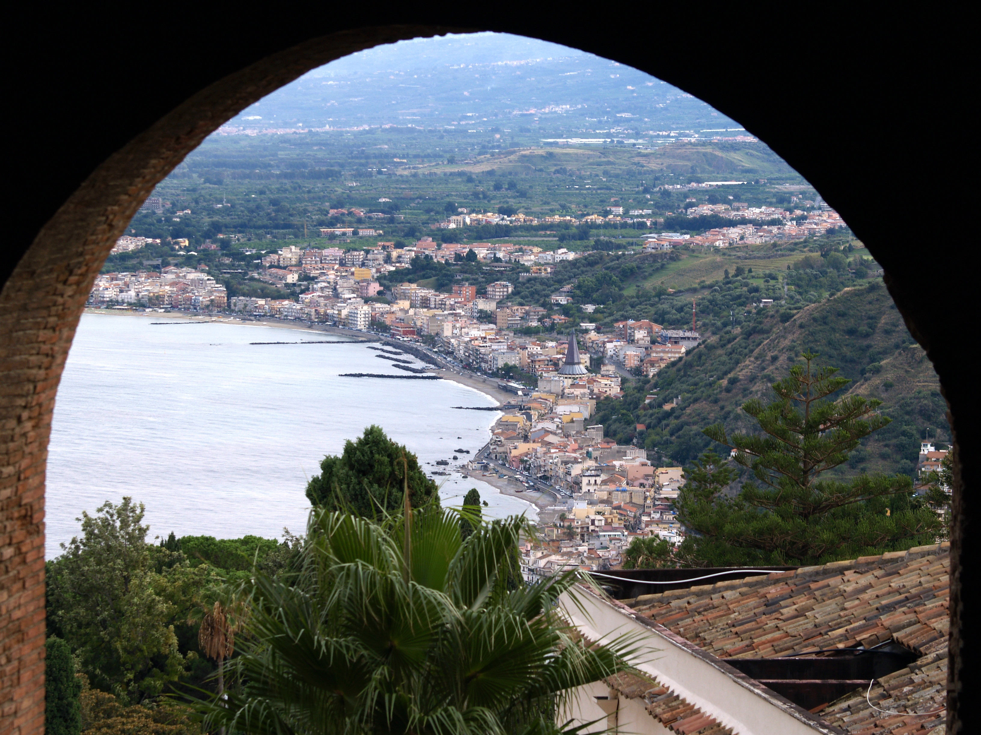 View from the Greek Roman theatre at Taormina, Sicily, to the bay of Giardini Naxos